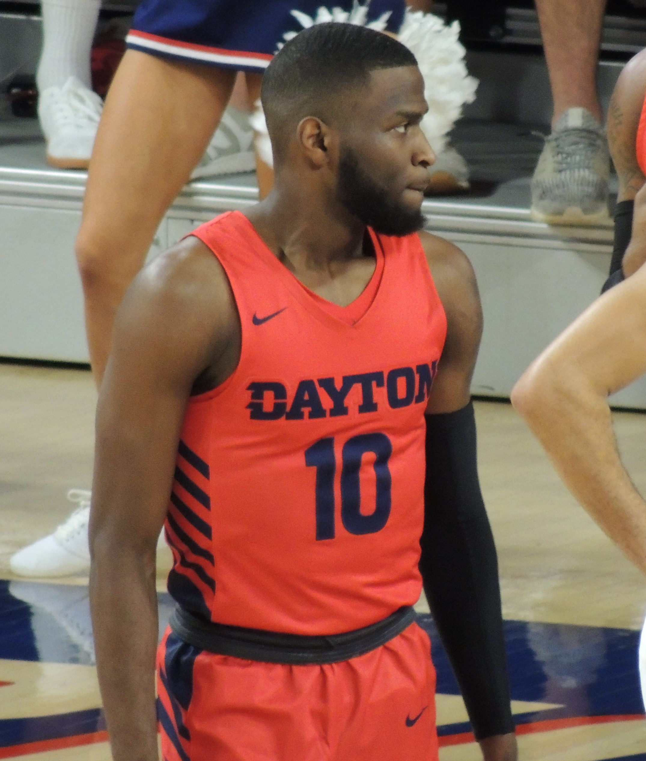 American college basketball player Jalen Crutcher of the Dayton Flyers in a game at the University of Richmond